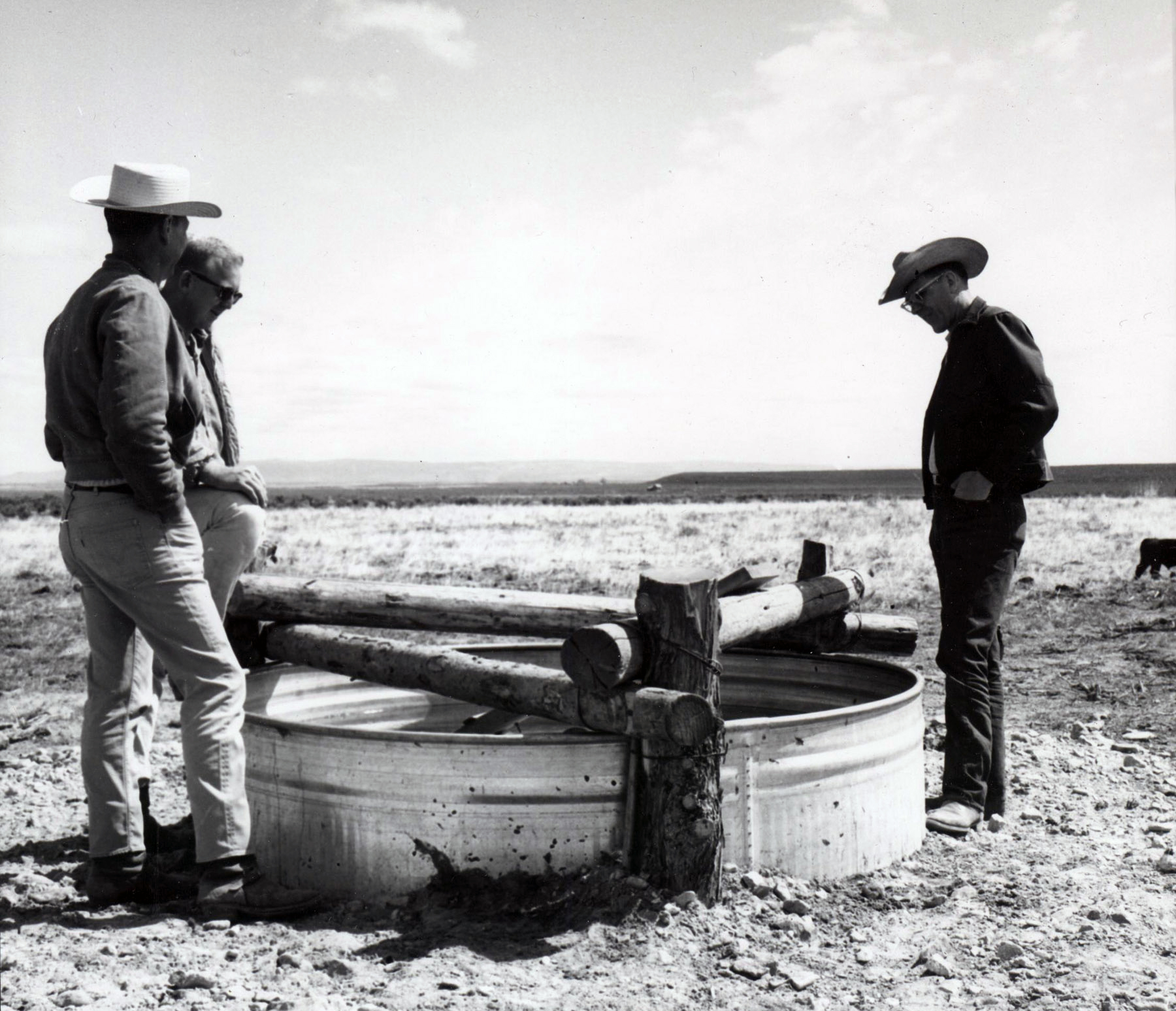 We uncovered these photos from the early days of the BLM's Burns District. Located in eastern Oregon, the Burns District manages over three million acres of public lands starting at the Oregon-Nevada border and heading up to the Blue Mountains. Some highlights include Steens Moutain, the Donner and Blitzen National Wild and Scenic River, and the Diamond Craters Outstanding Natural Area. In total, Burns features 23 Wilderness Study Areas which protect the natural values of over one million acres.